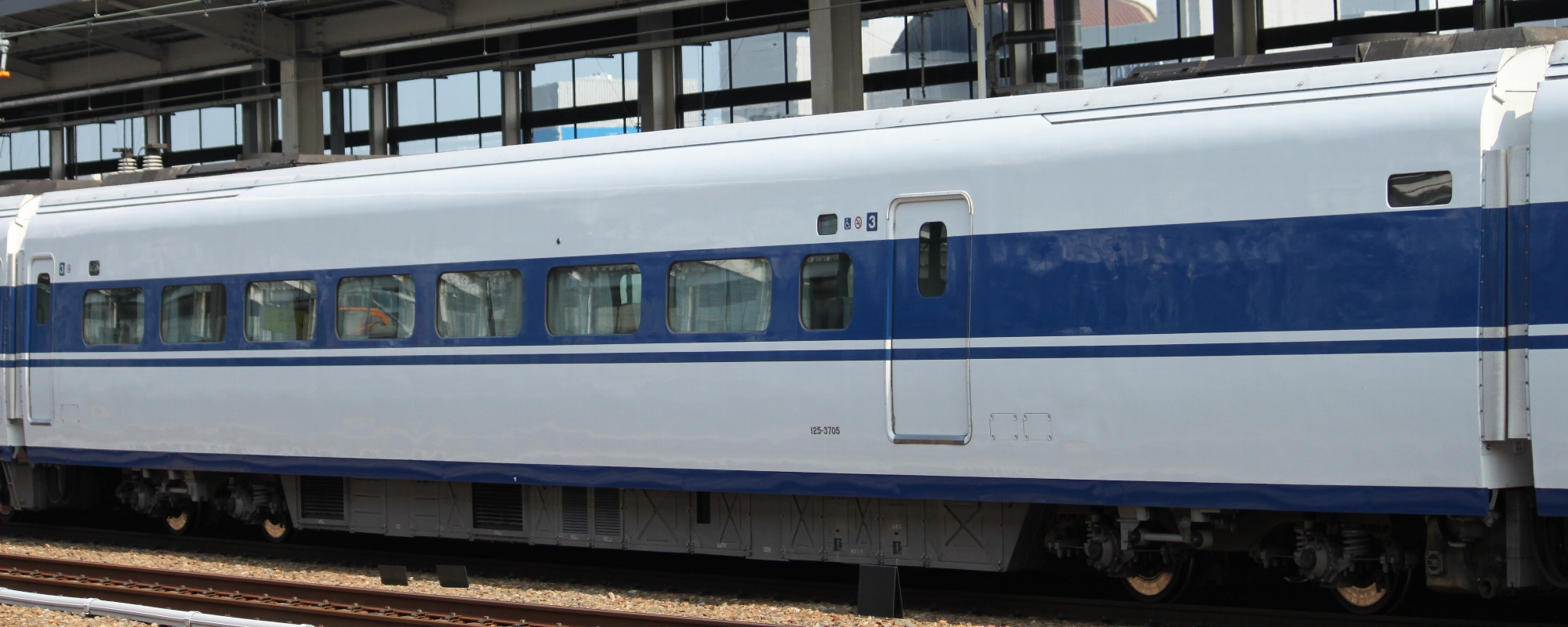 Shinkansen series 100(125-3705) in Himeji Station